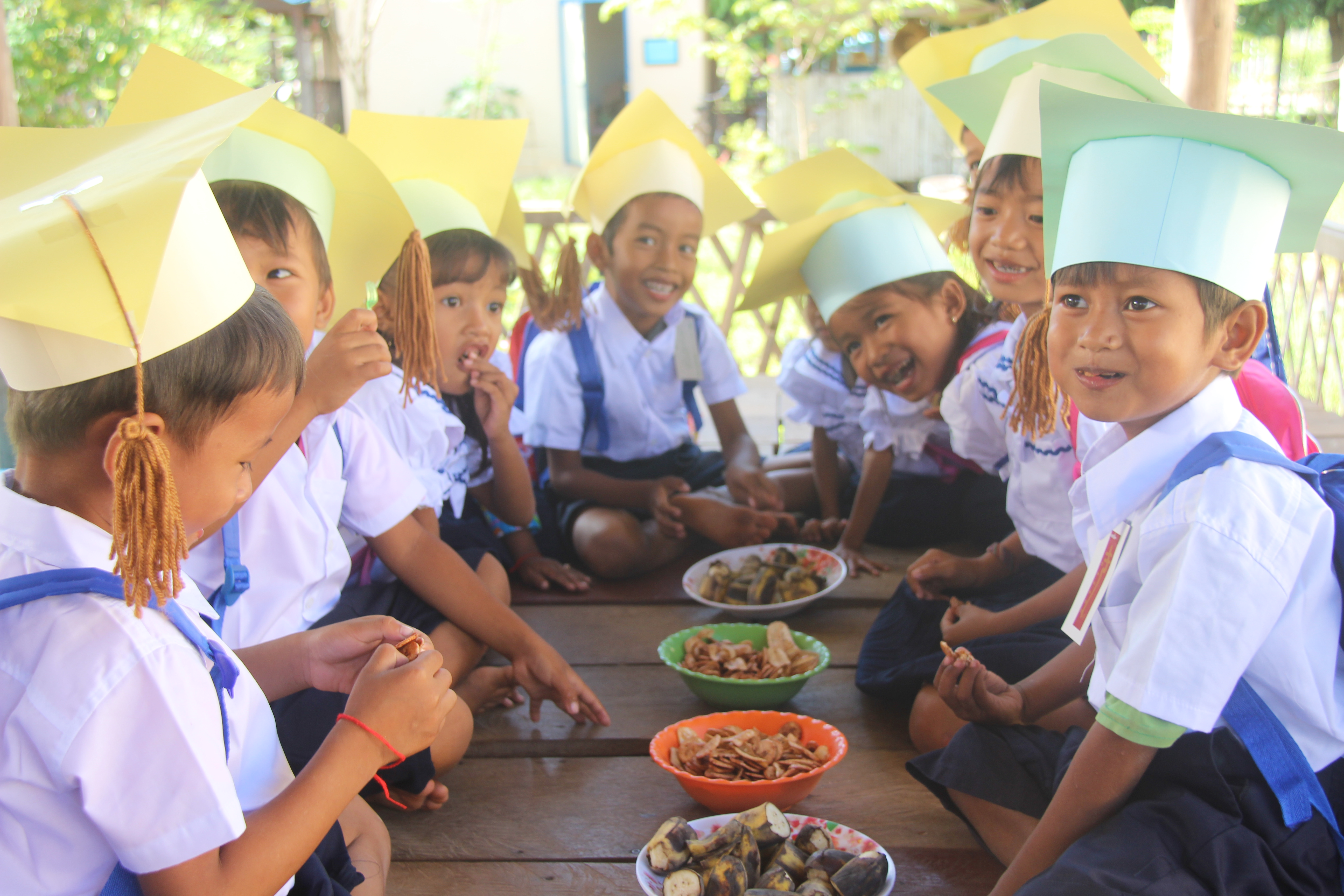 Preschool graduates at Human and Hope Association in October 2016